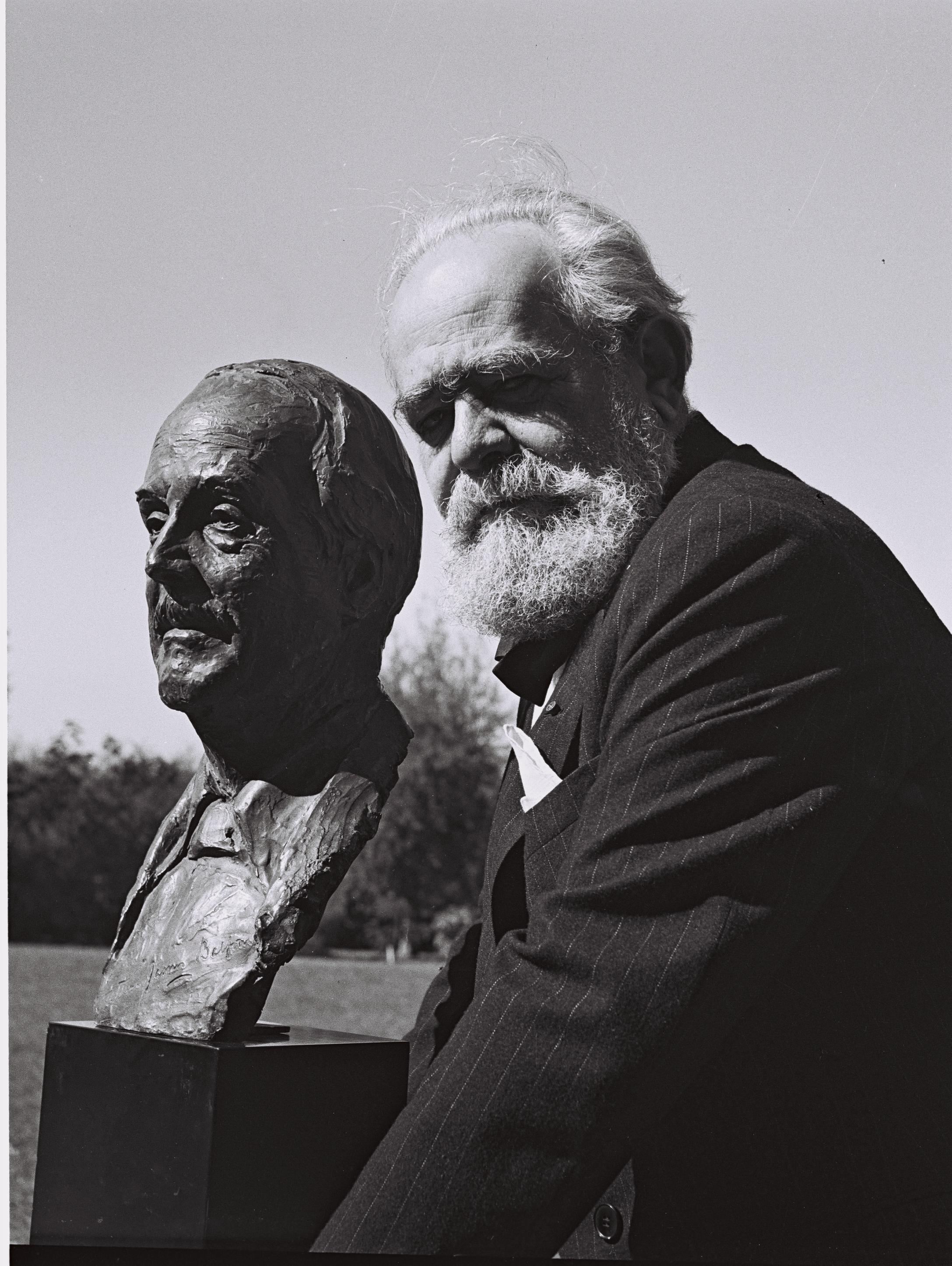 Sculptor Jo Davidson with the bust of Lord Arthur Balfour he made in Israel, 1951